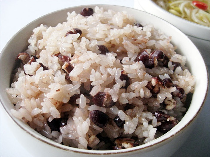 Patbap (red bean rice)